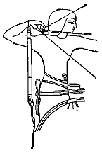 An illustration from the Encyclopaedia Biblica, a 1903 publication which is now in the public domain. Fig. 3 for article "Chariot". Image of an Egyptian archer on a chariot, from an ancient engraving at Thebes